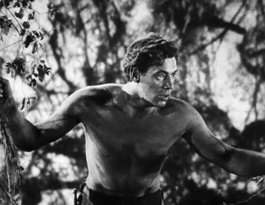 Low resolution screenshot from the public domain trailer for the film Tarzan the Ape Man (1932) with Johnny Weissmuller as Tarzan.